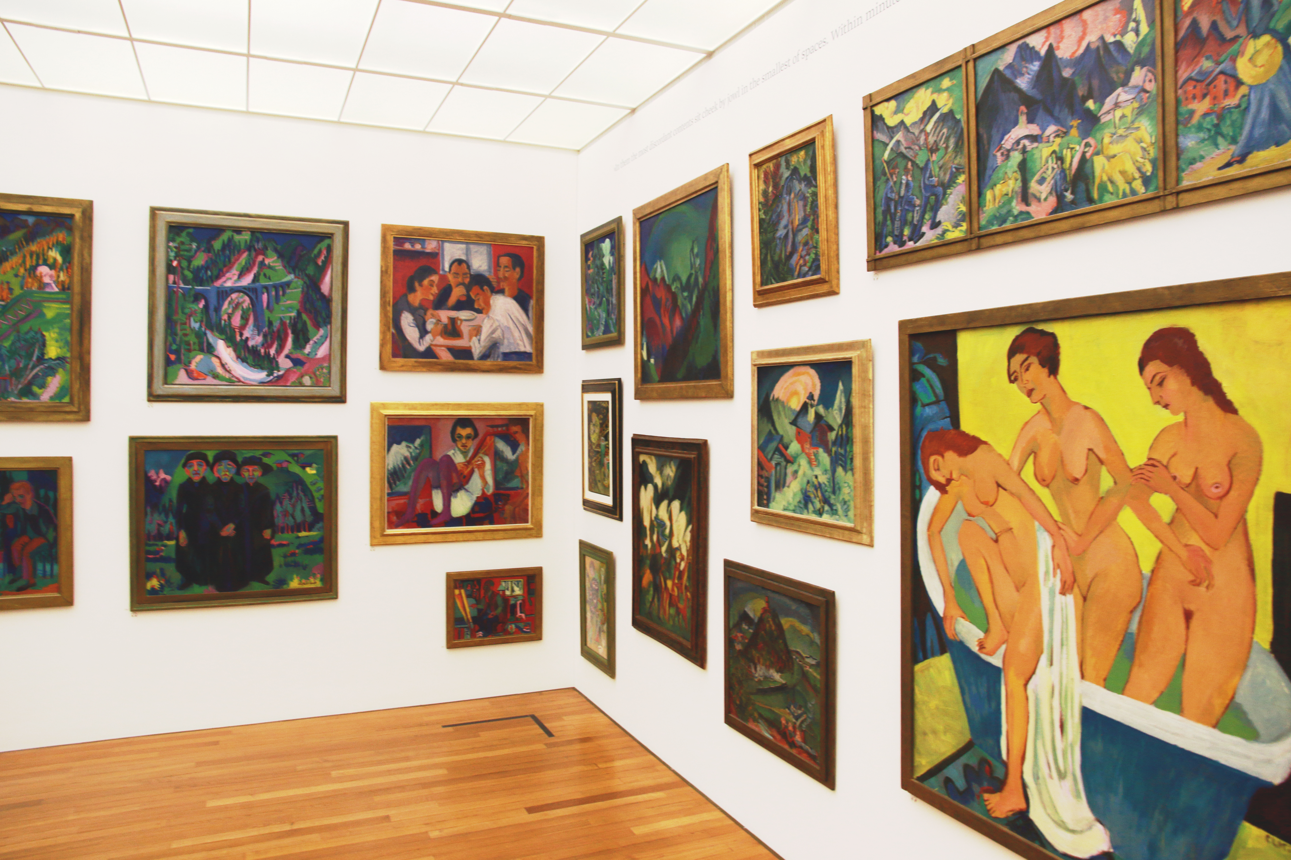 Part of the Ernst Ludwig Kirchner Museum's collection on the work of the artist